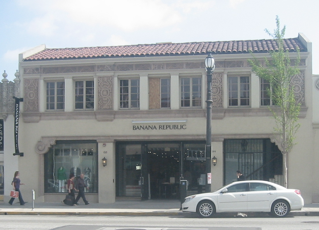 Banana Republic store on Colorado Boulevard in Pasadena, California